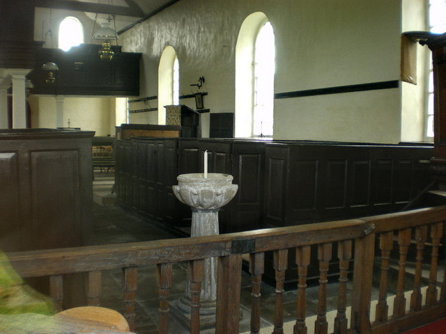 St Mary's, Tarleton, Interior